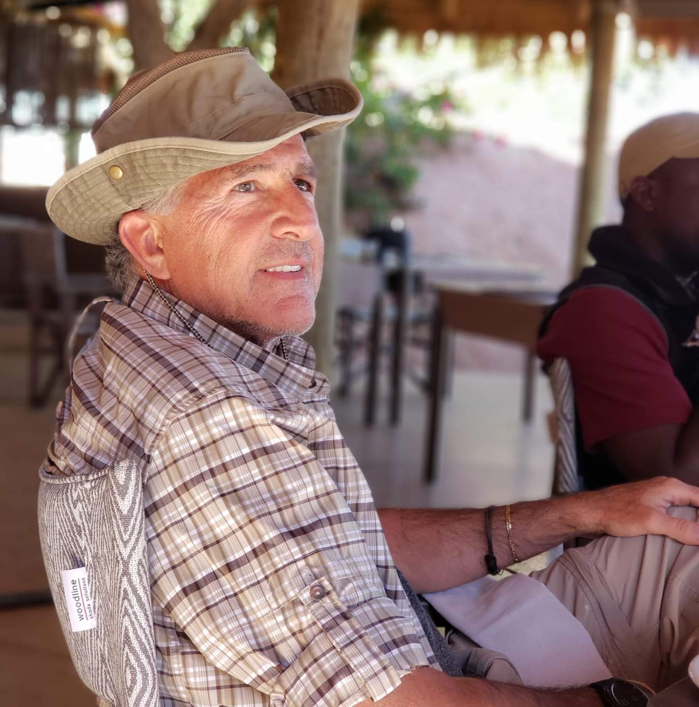 An image of businessman Steve Alexander taken in 2018 during a trip to Africa